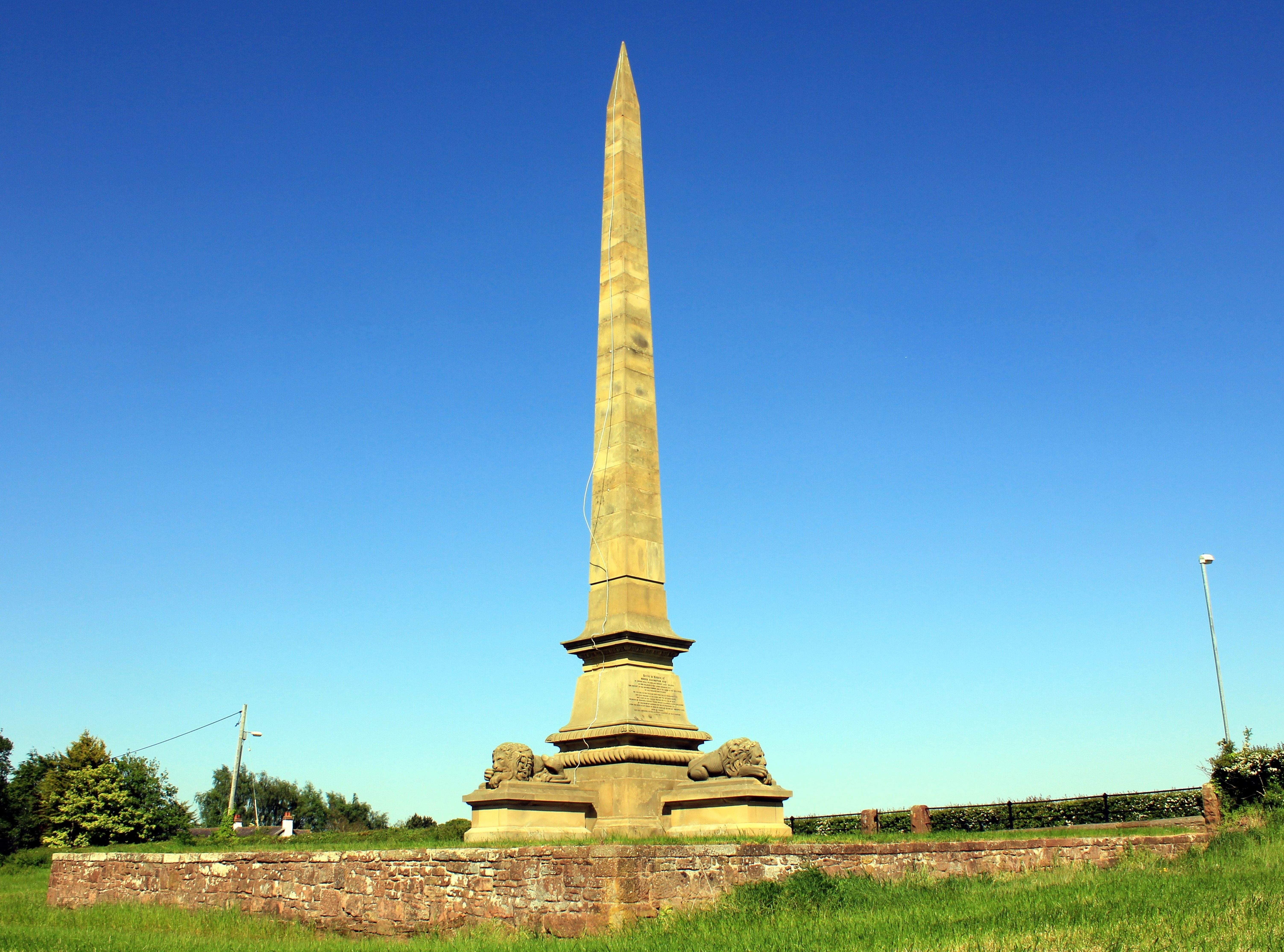 Photograph of the Barnston Monument, near Farndon, Cheshire